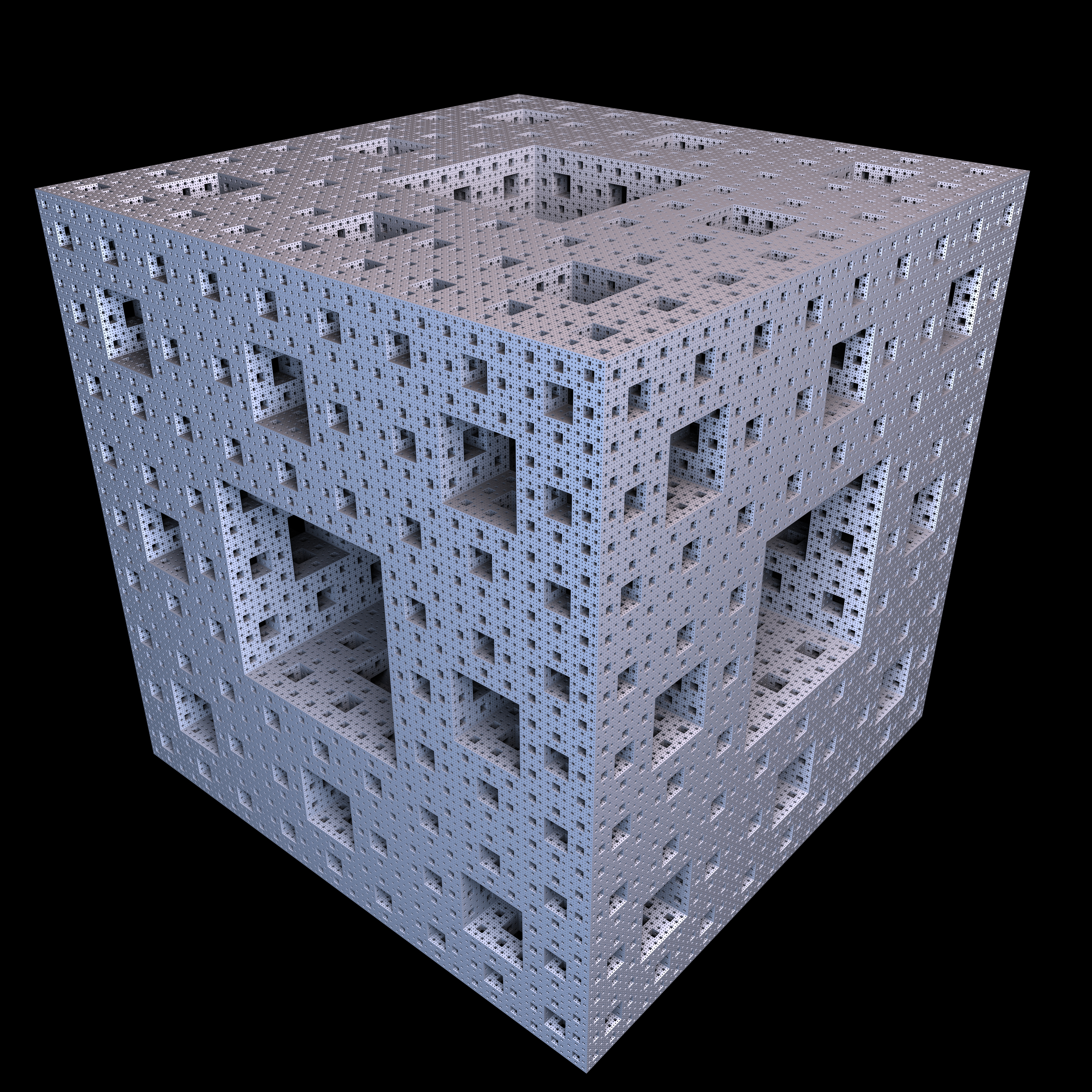 Menger Sponge after six iterations.